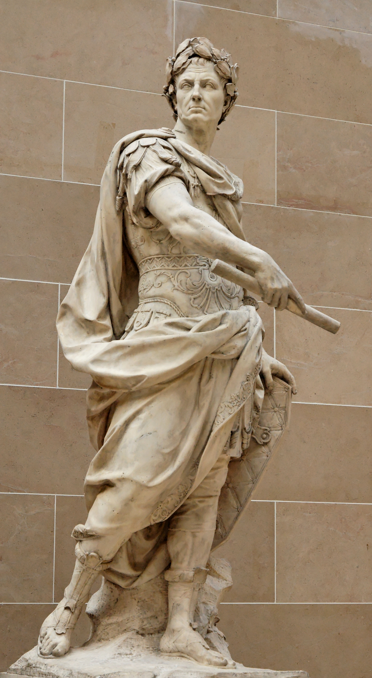 Julius Caesar. Commissioned in 1696 for the Gardens of Versailles, to go with the Annibal by Sébastien Slodtz.